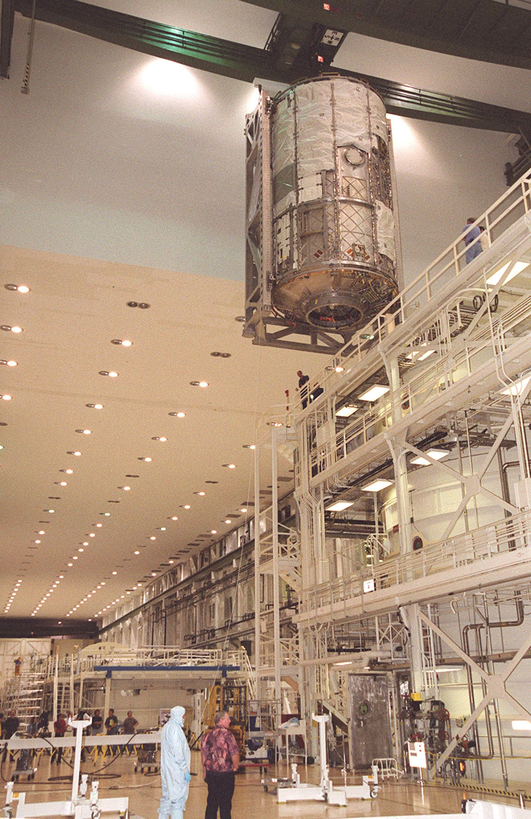 KENNEDY SPACE CENTER, FLA. -- In the Operations and Checkout Building, the U.S. Lab moves overhead after being lifted out of the vacuum chamber where it was tested for leaks. The test was very successful. The 32,000-pound steel and aluminum scientific research lab, named Destiny, is the first Space Station element to spend seven days in the renovated vacuum chamber. Destiny is scheduled to be launched on Shuttle mission STS-98, the 5A assembly mission, targeted for Jan. 18, 2001. During the mission, the crew will install the Lab in the Space Station during a series of three space walks. The STS-98 mission will provide the Station with science research facilities and expand its power, life support and control capabilities. The U.S. Lab module continues a long tradition of microgravity materials research, first conducted by Skylab and later Shuttle and Spacelab missions. Destiny is expected to be a major feature in future research, providing facilities for biotechnology, fluid physics, combustion, and life sciences research